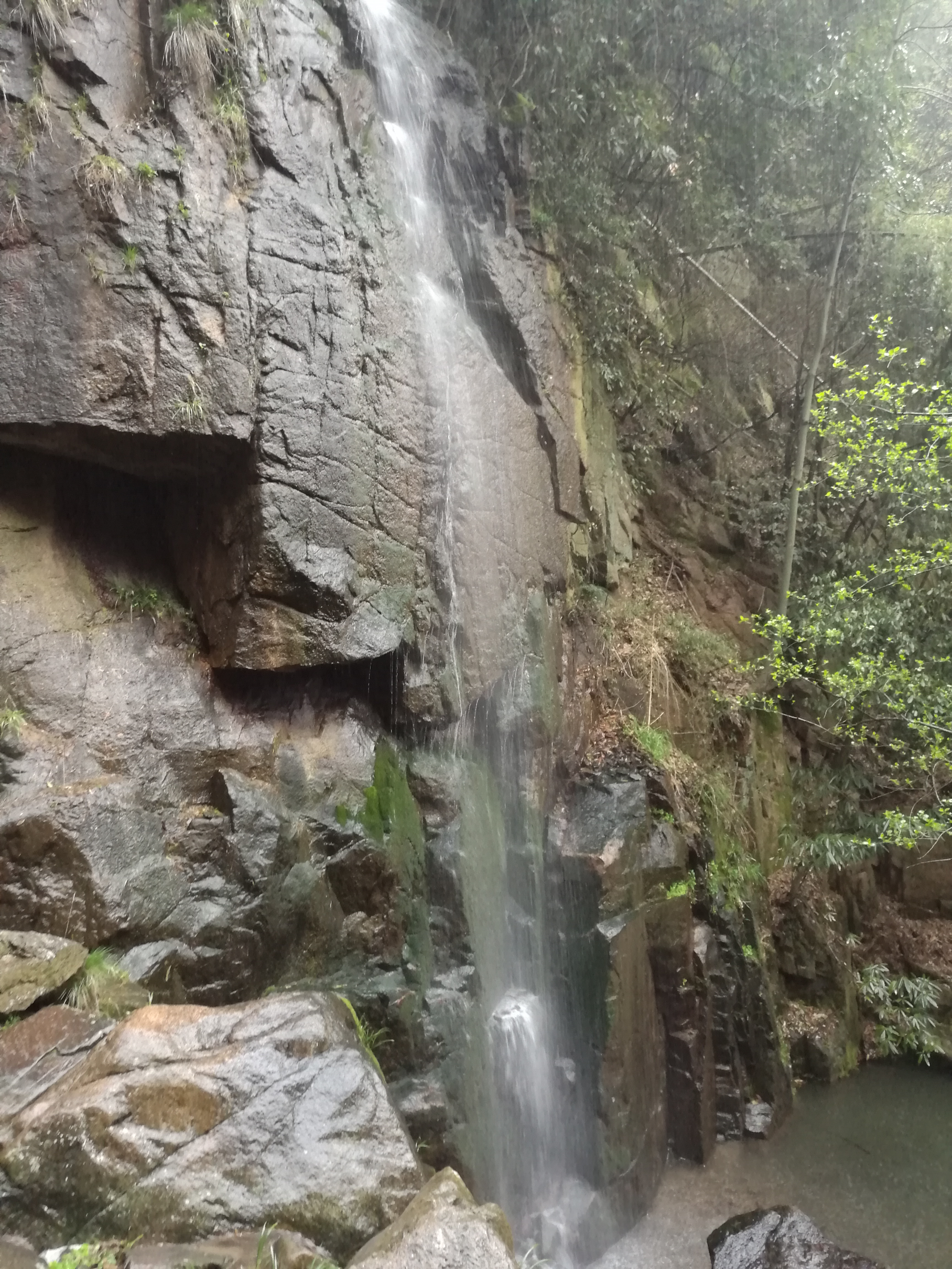 Mount Mogan Waterfall